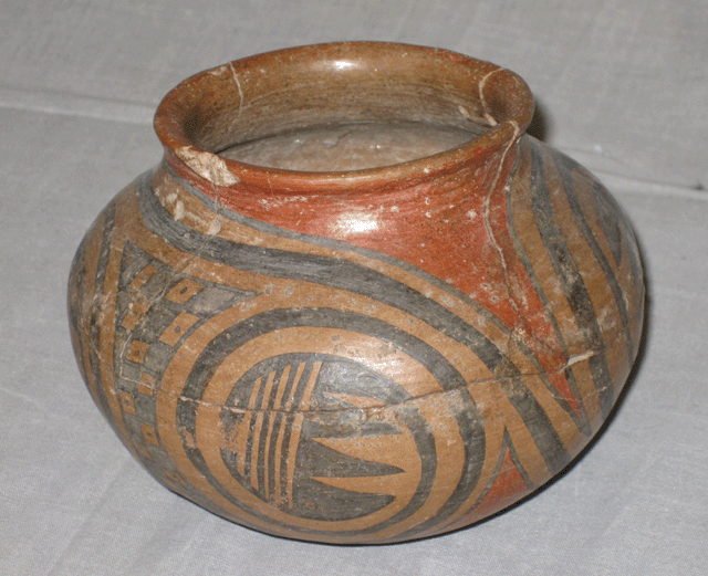 Escondida Polychrome Jar from the collections of the Maxwell Museum, University of New Mexico.